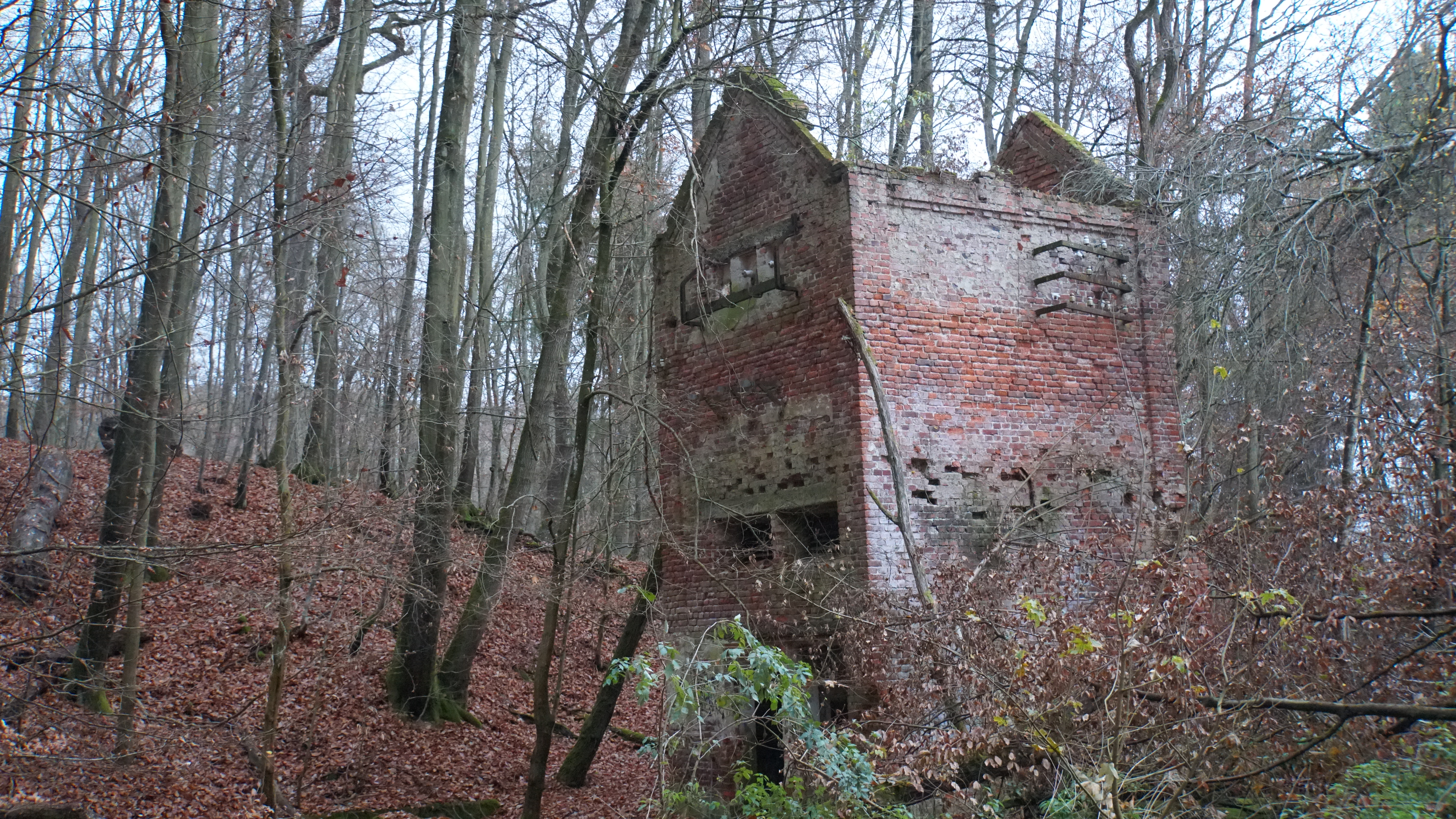 Zollhaus mine. Electric supply building for Barbara adit.